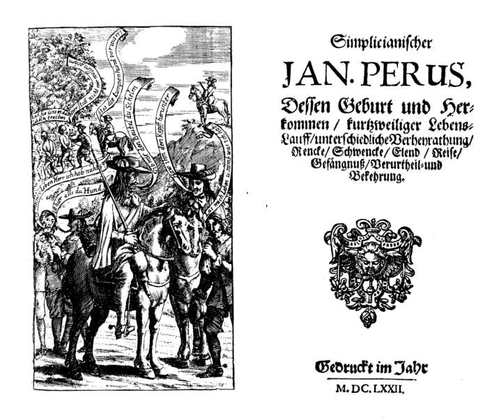 Title page of German edition of Richard Head's English Rogue